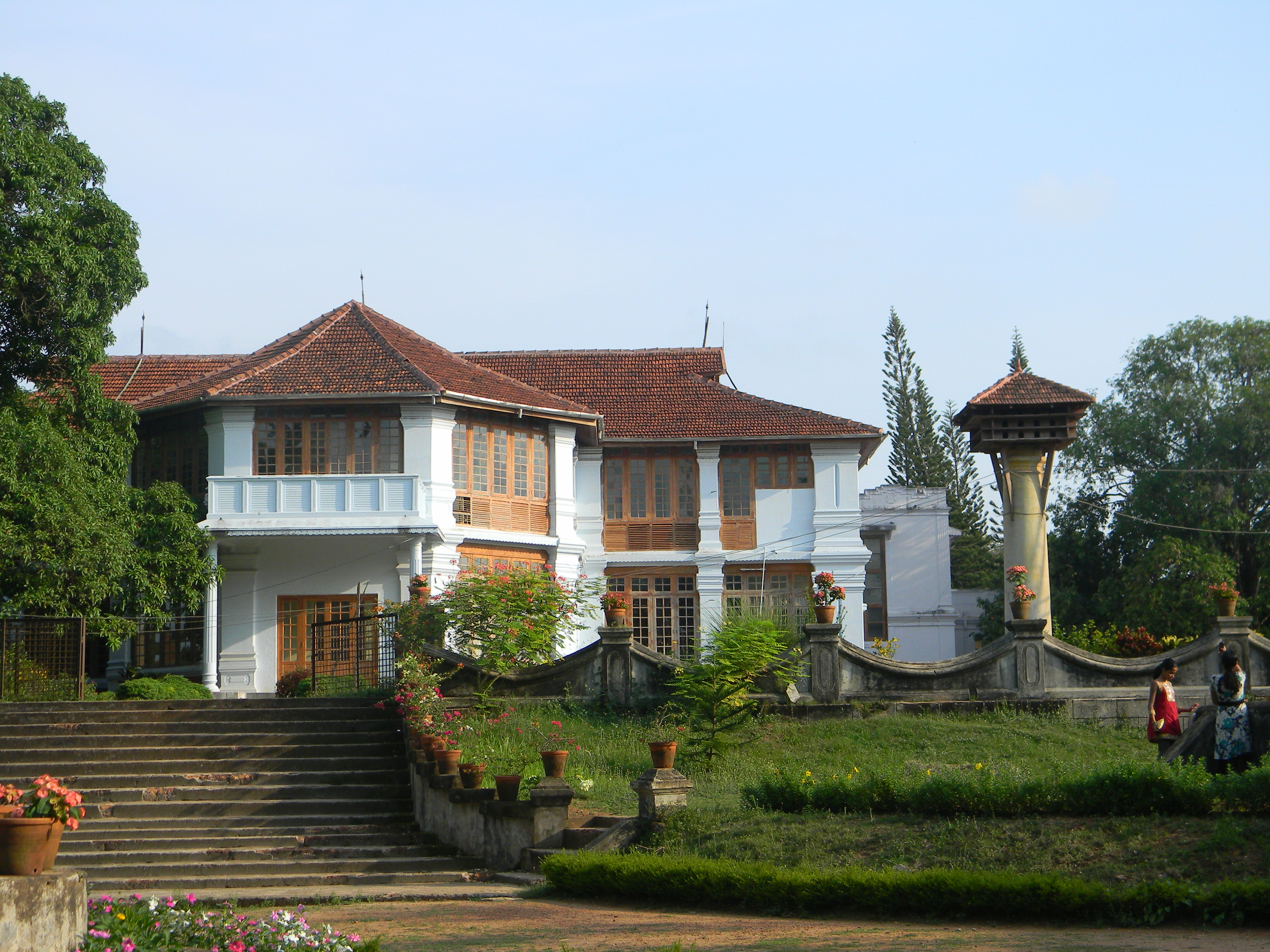 A view of the Hill Palace, Tripunithura, the administrative seat of the erstwhile Kingdom of Cochin and the Cochin Royal Family